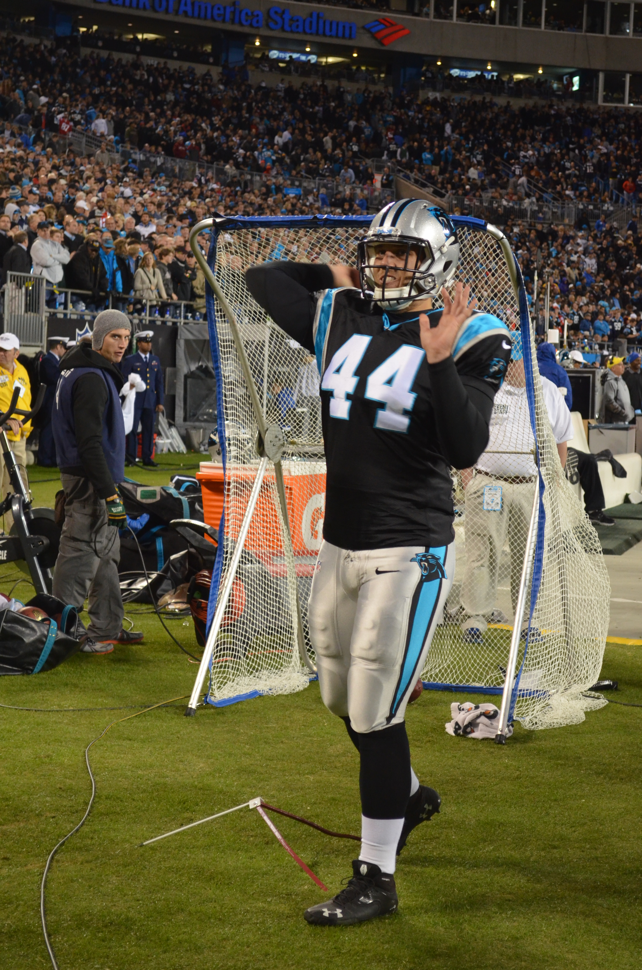 Carolina Panthers long snapper, J.J. Jansen, in a game against the New England Patriots on November 18, 2013.